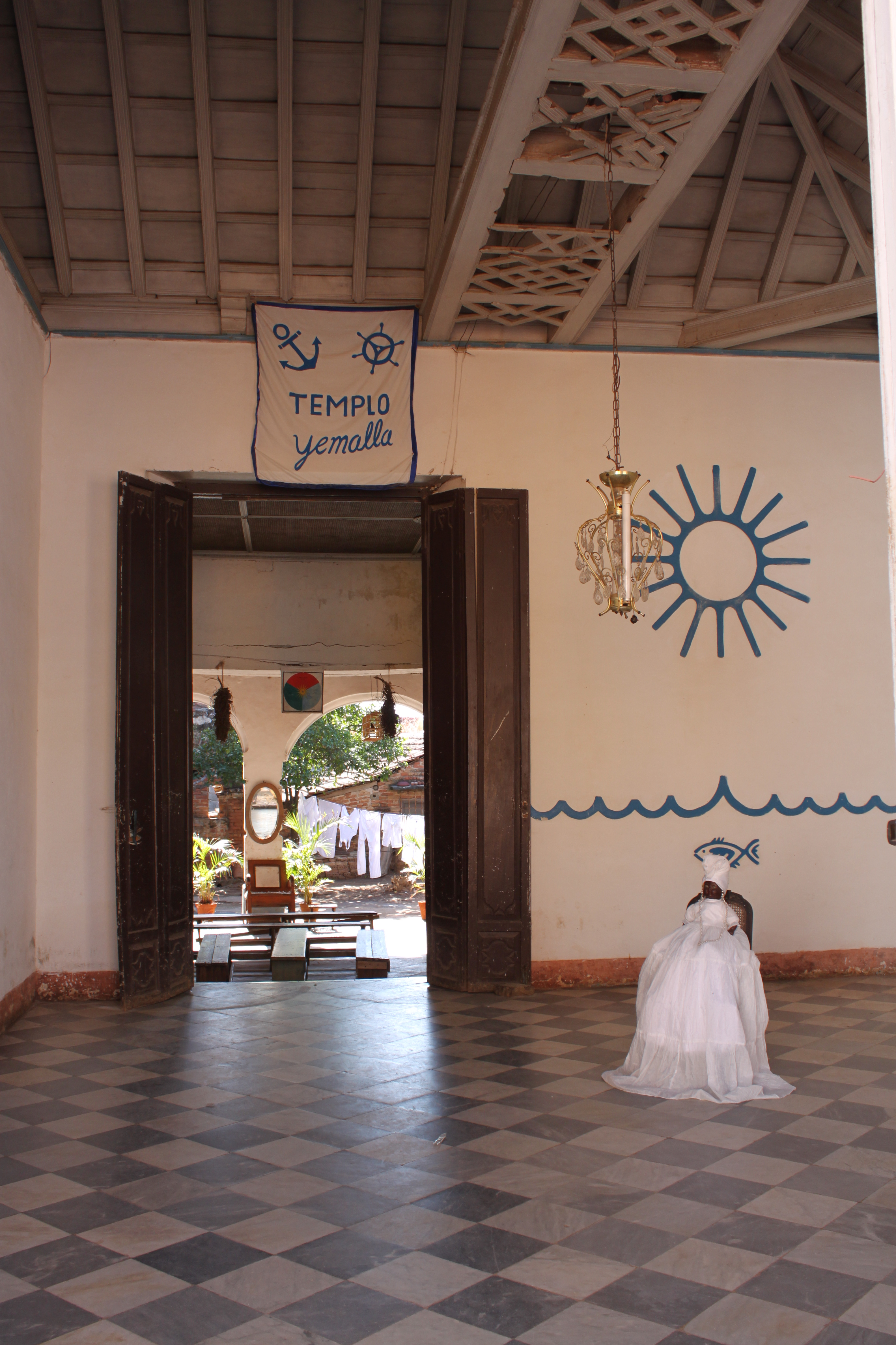 Jemalla Temple Trinidad, Cuba